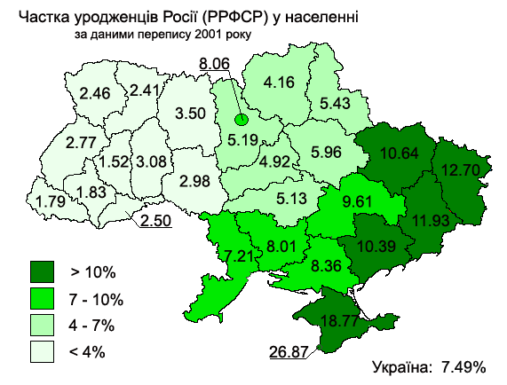 Proportion of people born in Russia (RSFSR) according to 2001 Ukrainian Census